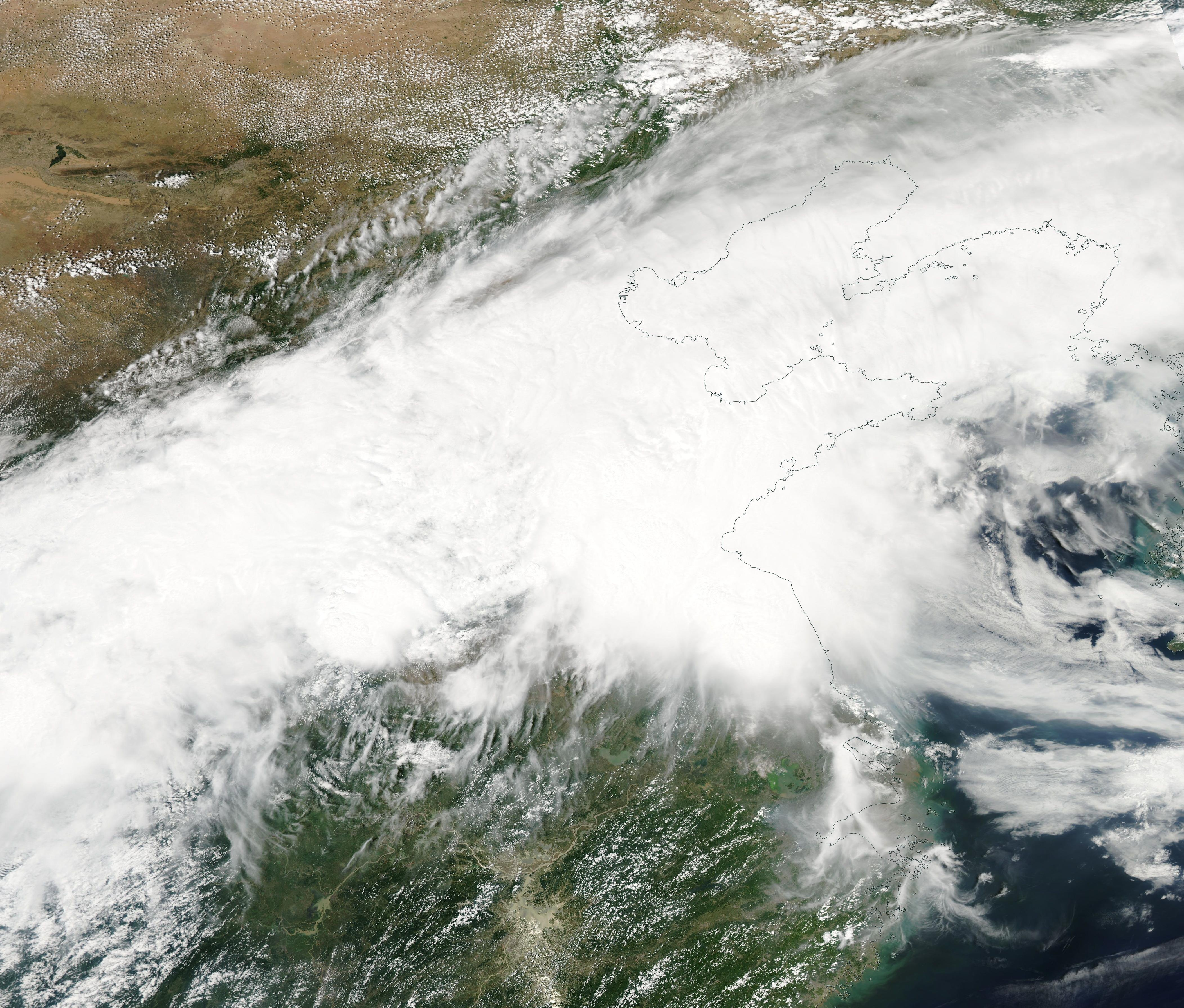 Visible satellite image of an intense thunderstorm complex over eastern China at 5:25 UTC on June 23, 2016. One storm produced a strong tornado about one hour later that caused extensive damage in Jiangsu province.